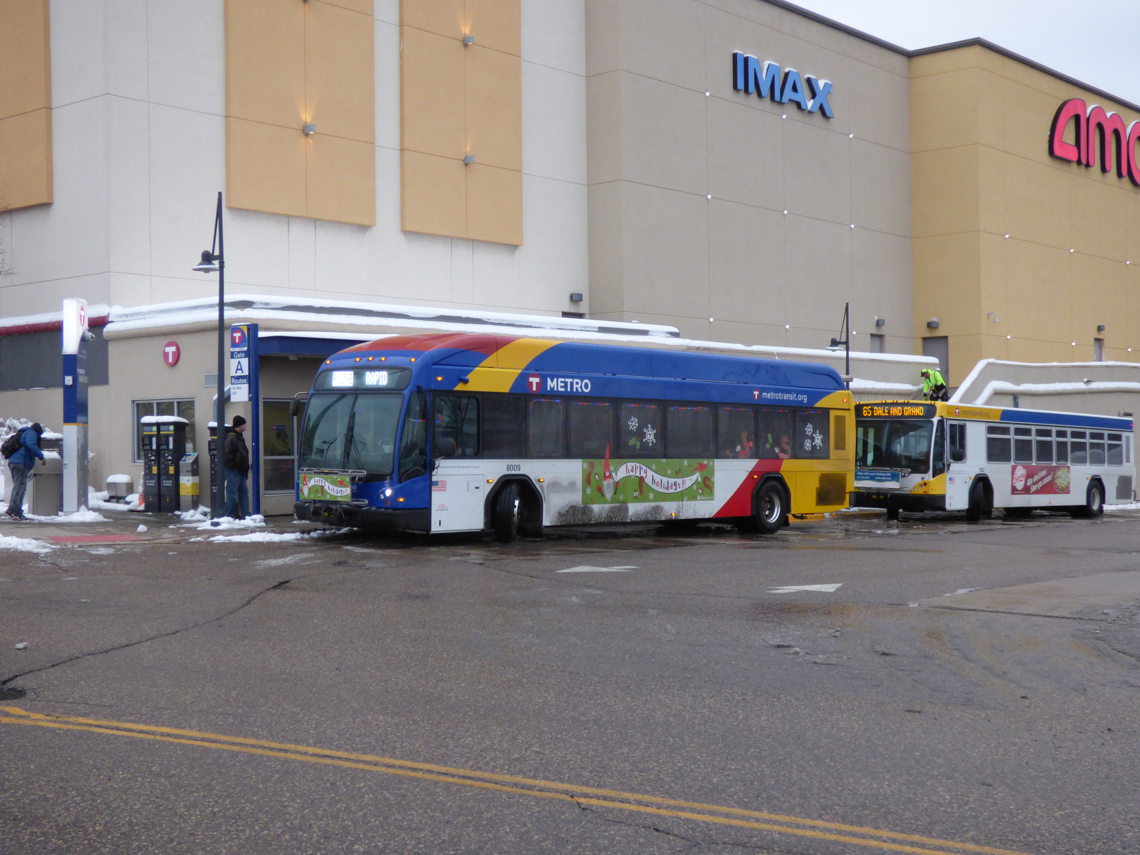 A METRO A Line bus at Rosedale Transit Center in Roseville, Minnesota. Rosedale Transit Center is the northern terminus on the A Line, a bus rapid transit line in Minnesota. The bus in the photo is decorated in a seasonal winter holiday wrap and is known as the "Holiday Bus" by Metro Transit.